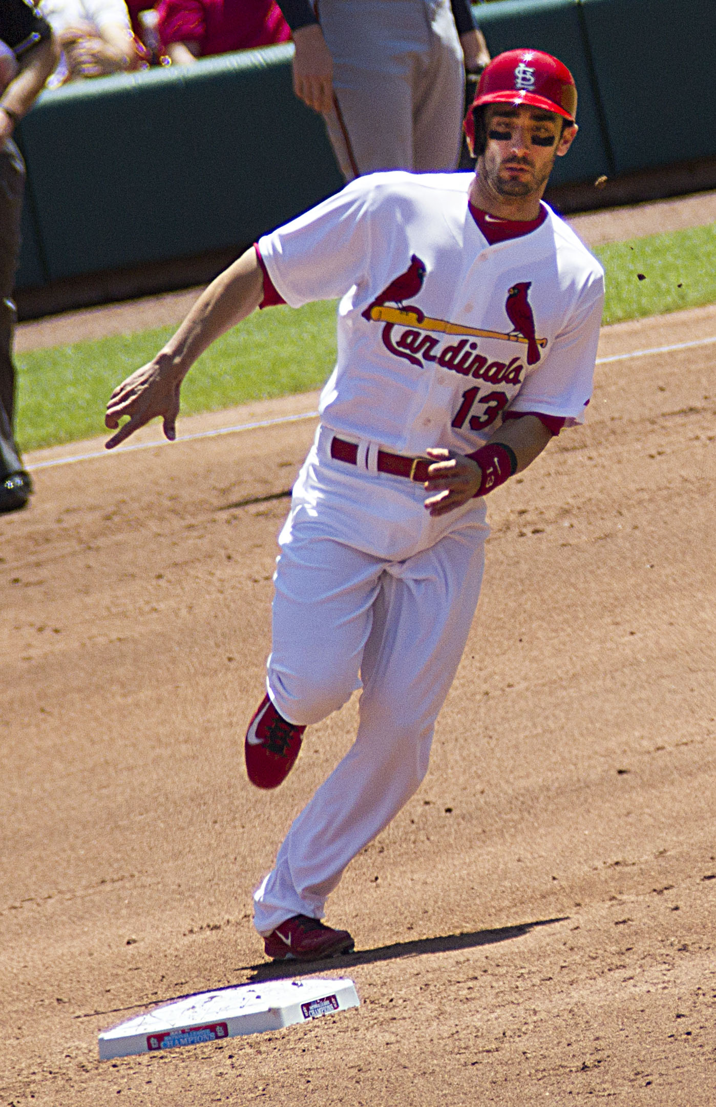 Matt Carptenter St.Louis Cardinals rounding 2nd.